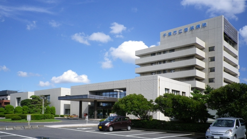 chiba kaihin municipal hospital